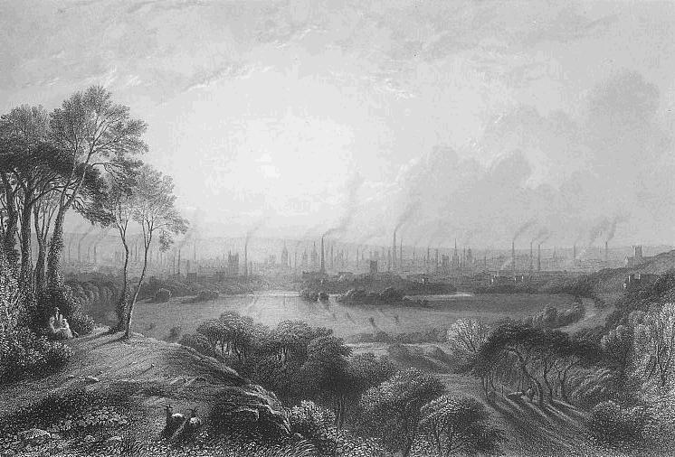 Cottonopolis is a name given to the city of Manchester, in England. It denotes a metropolis of cotton and cotton mills, as inspired by Manchester's status as the international centre of the cotton and textile processing industries during this time. Engraving by Edward Goodall (1795-1870), original title Manchester, from Kersal Moor after a painting of W. Wylde.